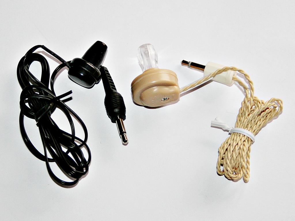 A crystal earpiece (right) and a dynamic earphone (left).